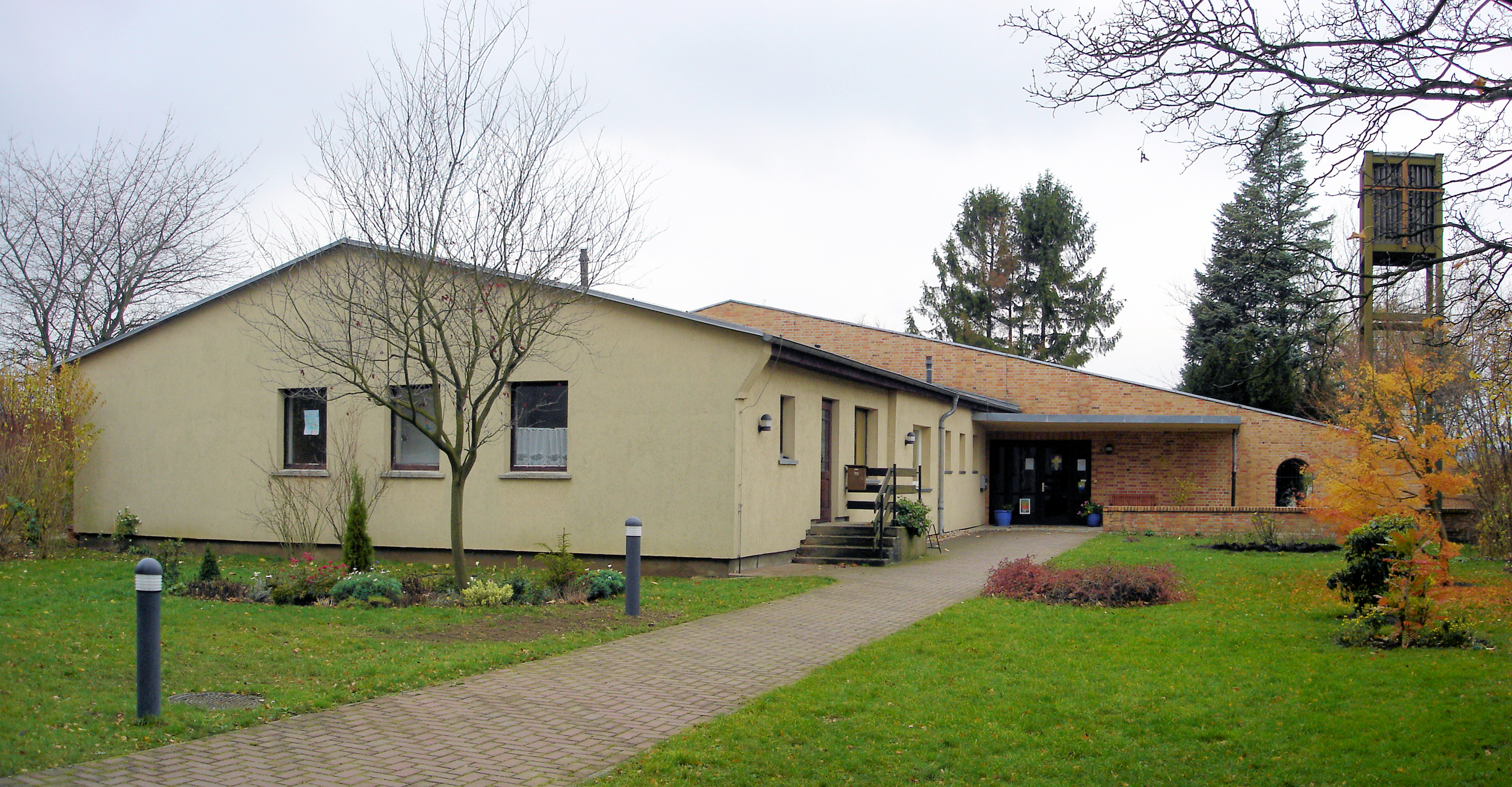 Andreaskirche in Rostock, Mecklenburg, Germany